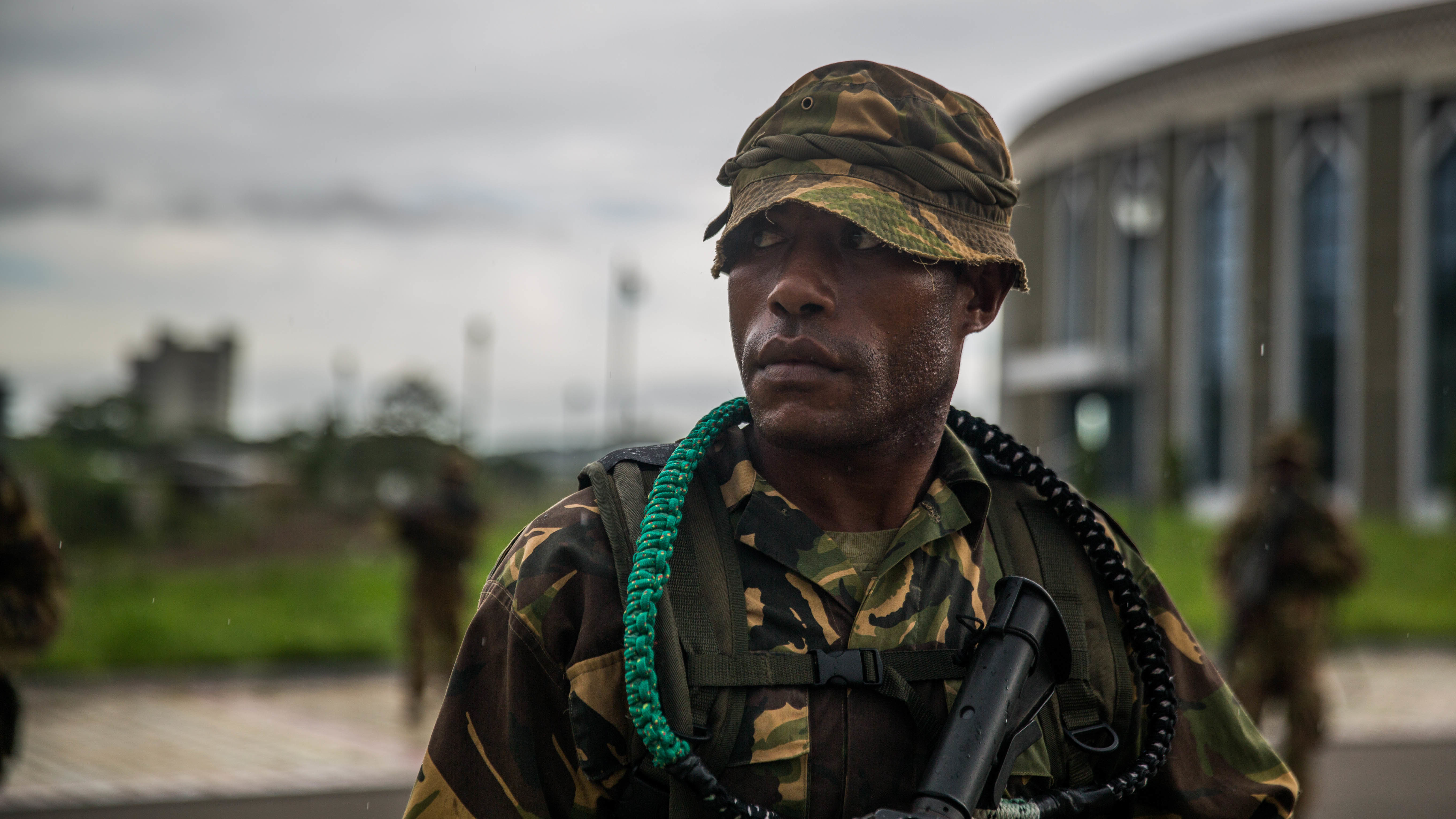 PORT MORESBY, Papua New Guinea (April 17, 2017) A Papua New Guinea Defense Force service member scans the surrounding area while patrolling with his squad during a military tactics exchange conducted alongside U.S. Marines with the 11th Marine Expeditionary Unit (MEU) at the National Convention Center as part of a theater security cooperation engagement, April 17. USS Comstock (LSD 45), with the embarked 11th MEU, is in Papua New Guinea to conduct activities and training that will enhance military-to-military relations. (U.S. Marine Corps photo by Cpl. Devan K. Gowans)